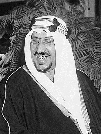 King Saud of Saudi Arabia at the dinner given by him at the Mayflower Hotel in Washington D.C. in 1957.